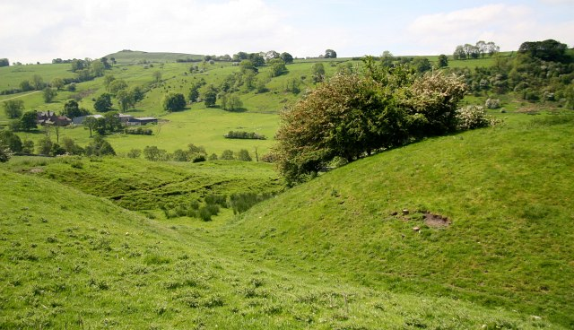 Pilsbury Castle Hills (5 of 5) 1714270: Previous image - - - First image : 1714232 Taken from inside the site of the castle this south-westerly facing photograph shows the remains of earthworks at Pilsbury motte-and-bailey castle. The mound on the right is the remains of the motte. The hill in the distance is Sheen Hill (SK111626). Also seen is Broadmeadow Hall and attendant farm buildings (SK118636). See this NGFL web site for information about, and a worksheet on, motte-and-bailey castles: See also The British History Site